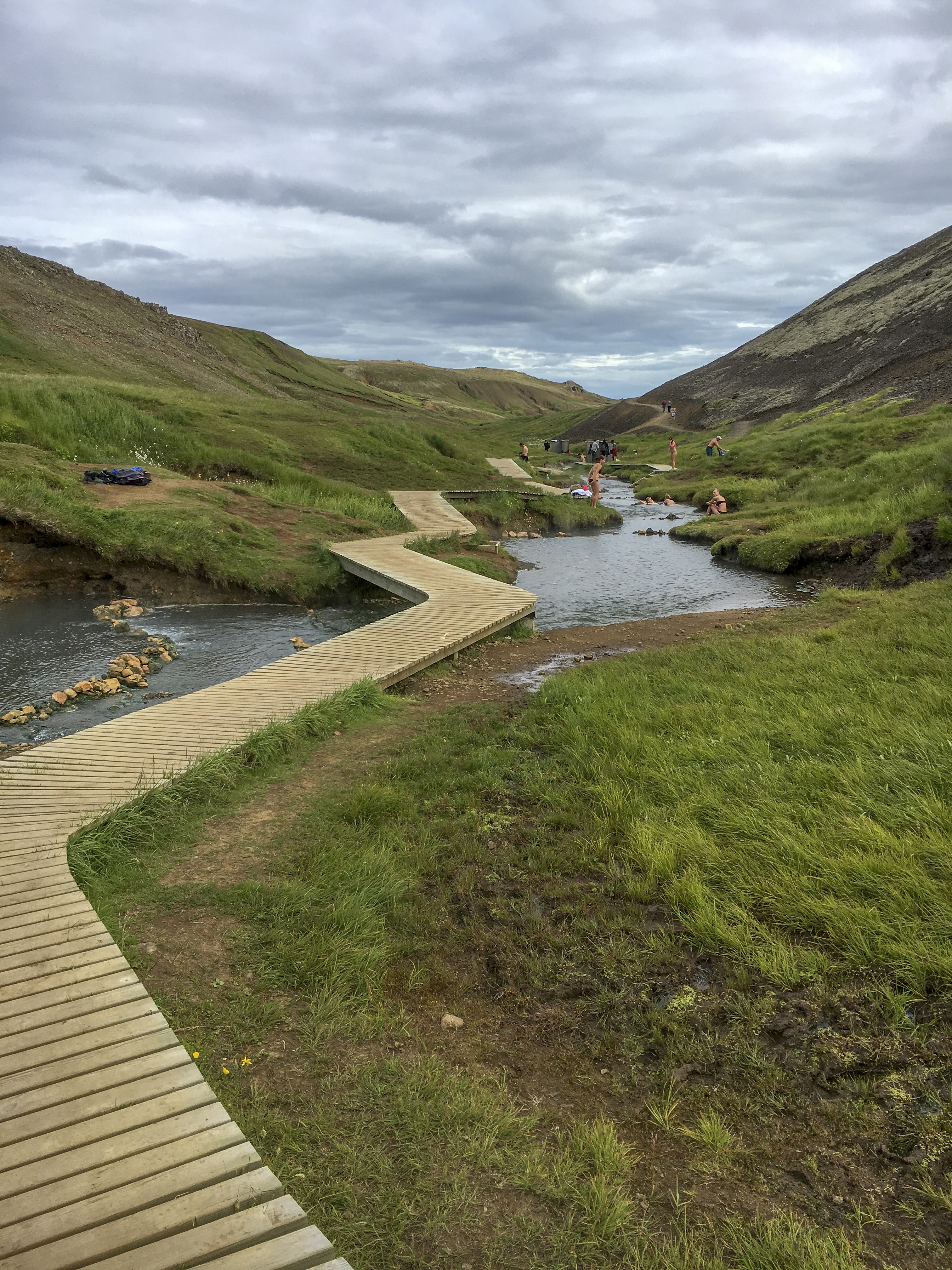 Hveragerði geothermal field (Iceland)